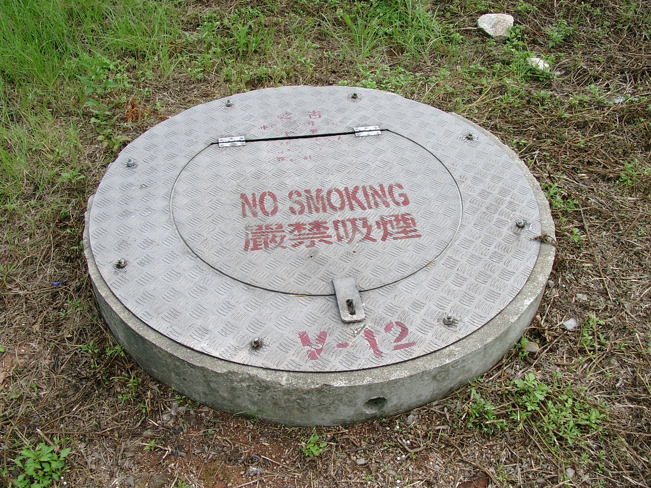 A Device to mange Landfill gas in Jordan Valley Landfill, Hong Kong